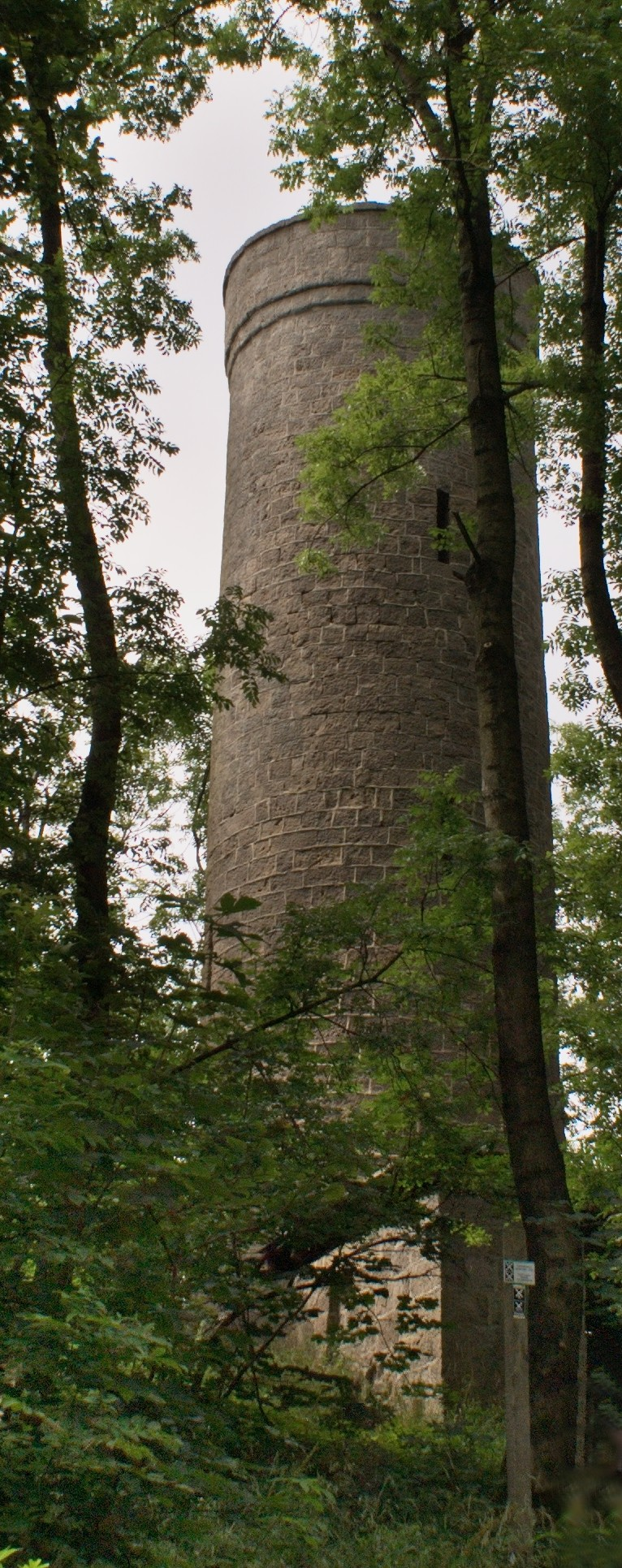 Ithturm in the near of Lauenstein, Lower Saxony